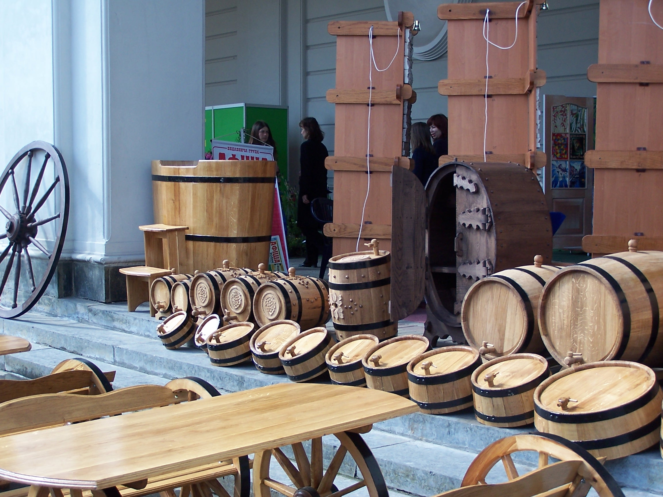 Photo by myself.